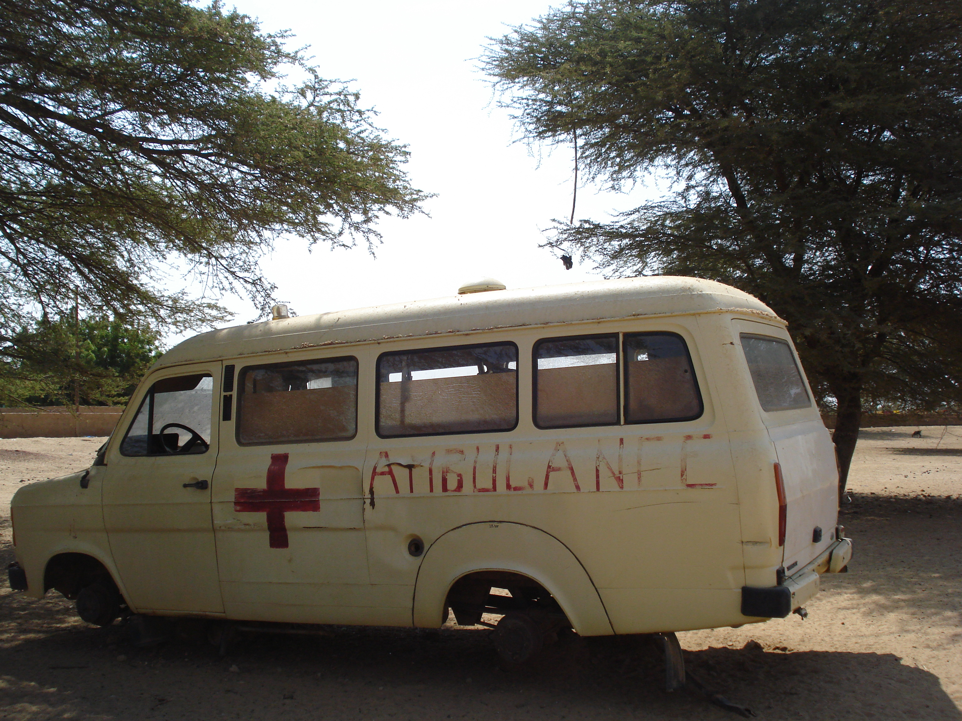 text